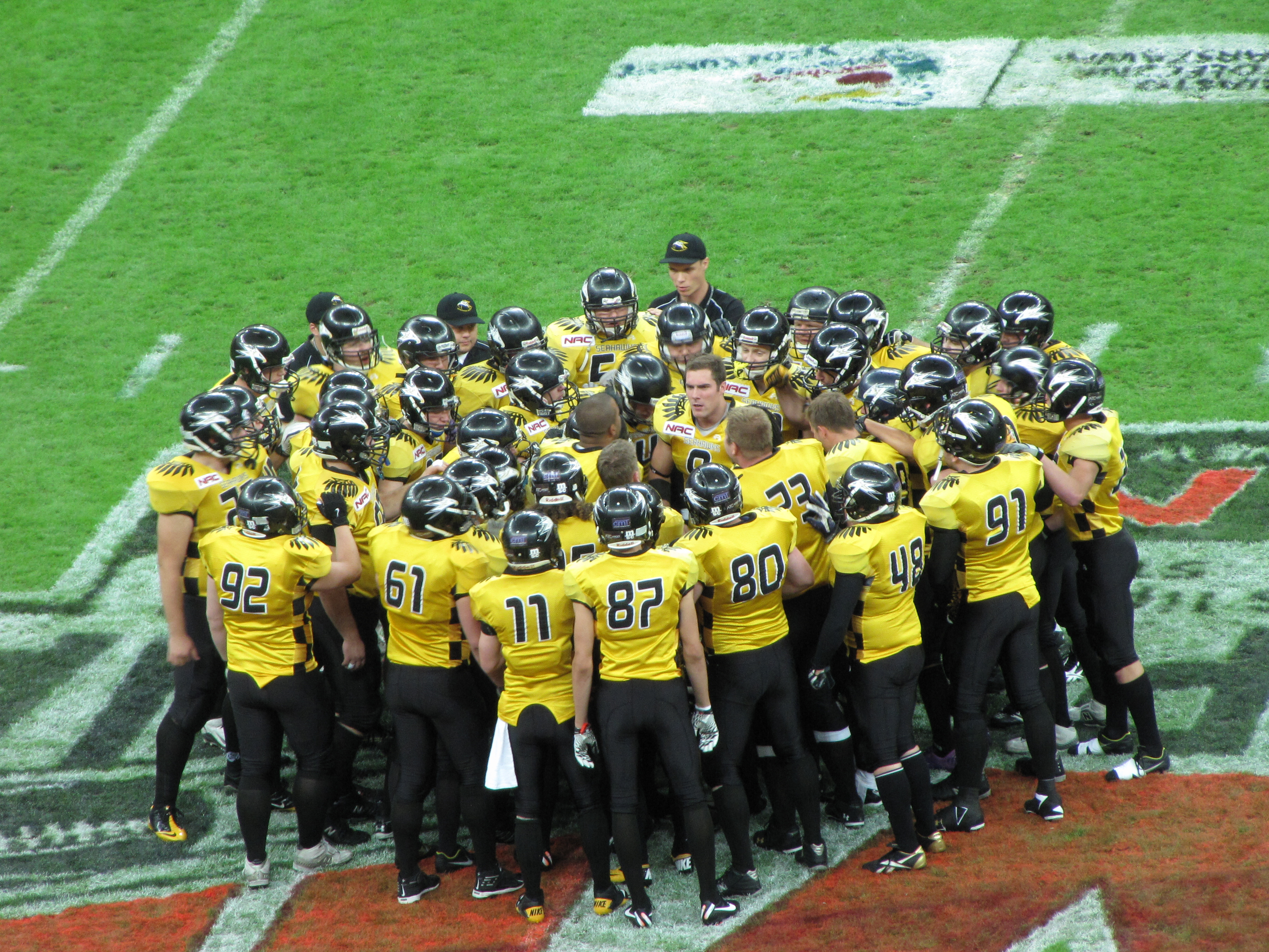 VII NAC SuperFinał